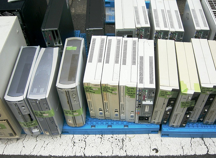 Junk desktop personal computer JunkShop Akihabara Tokyo Japan